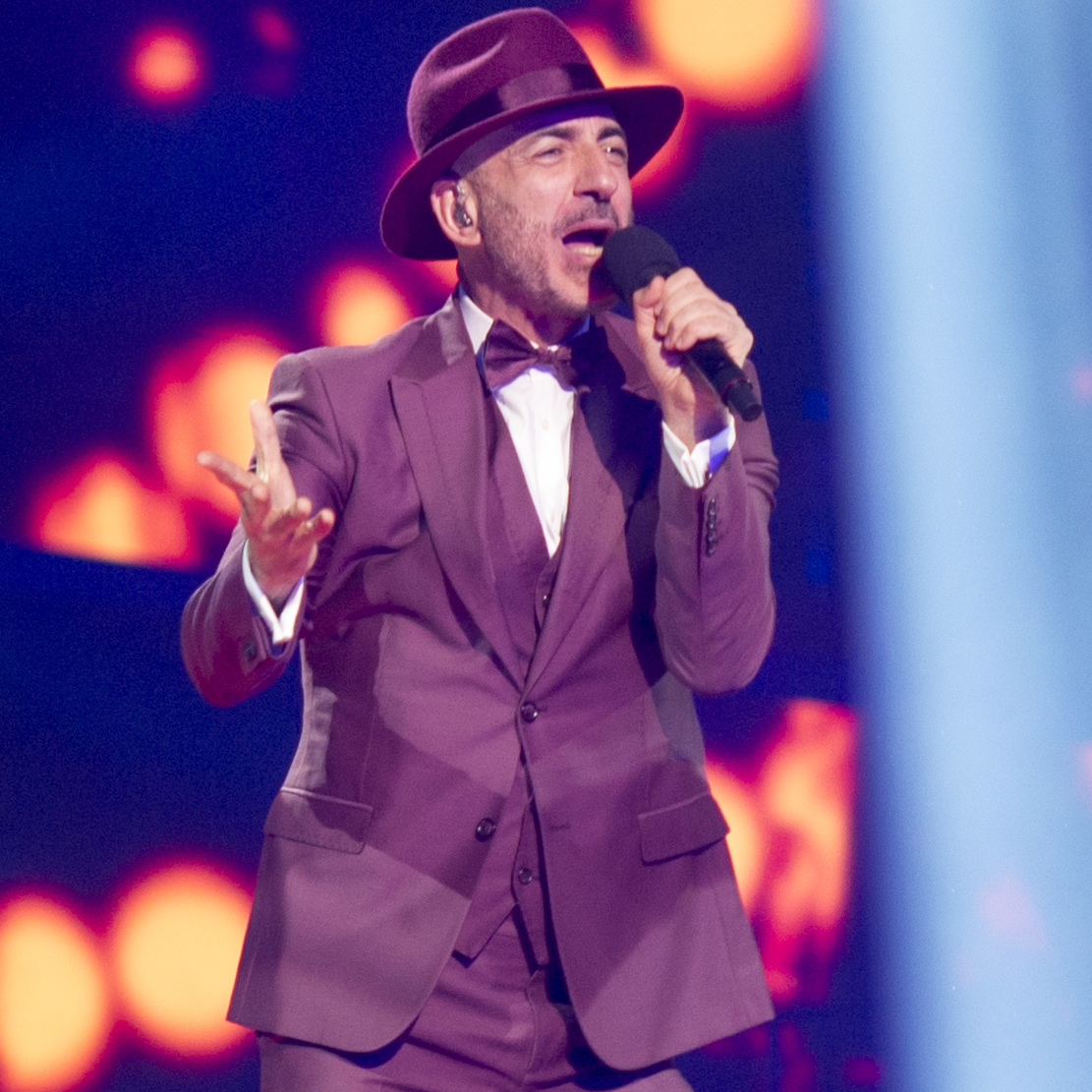 Serhat representing San Marino with the song "I Didn't Know" during a rehearsal before the first semi final of the Eurovision Song Contest 2016 in Stockholm. (Help translate this text)